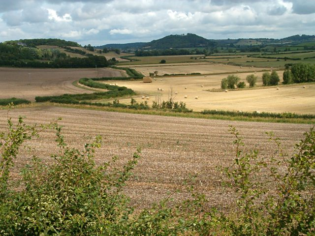 After the harvest. Looking along the line of Barpool Lane, Somerton and towards Dundon Beacon.